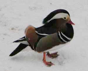 A Drake Mandarin Duck (Aix galericulata) on snow.